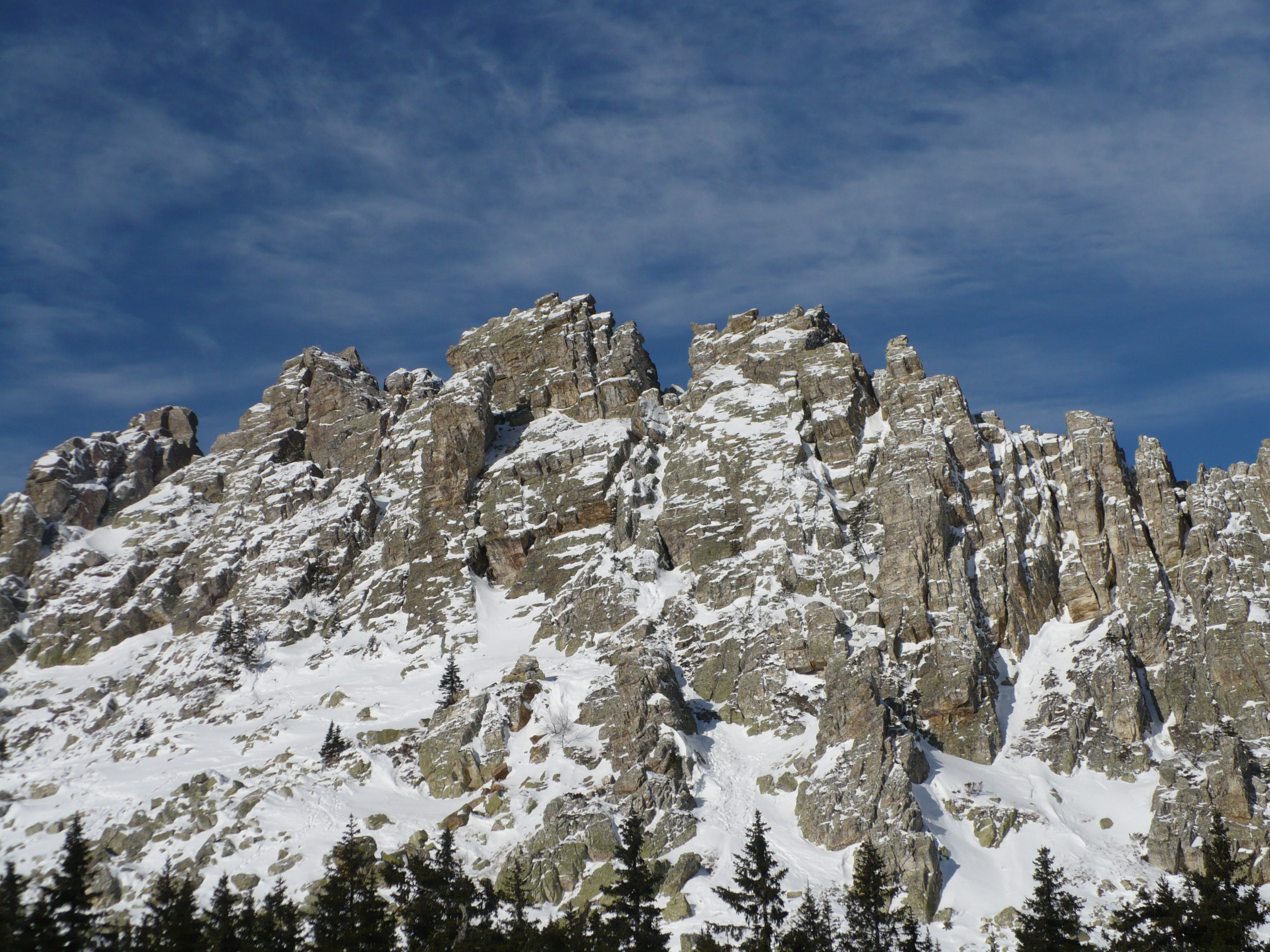 Otkliknoy greben. National park Taganay. South Ural